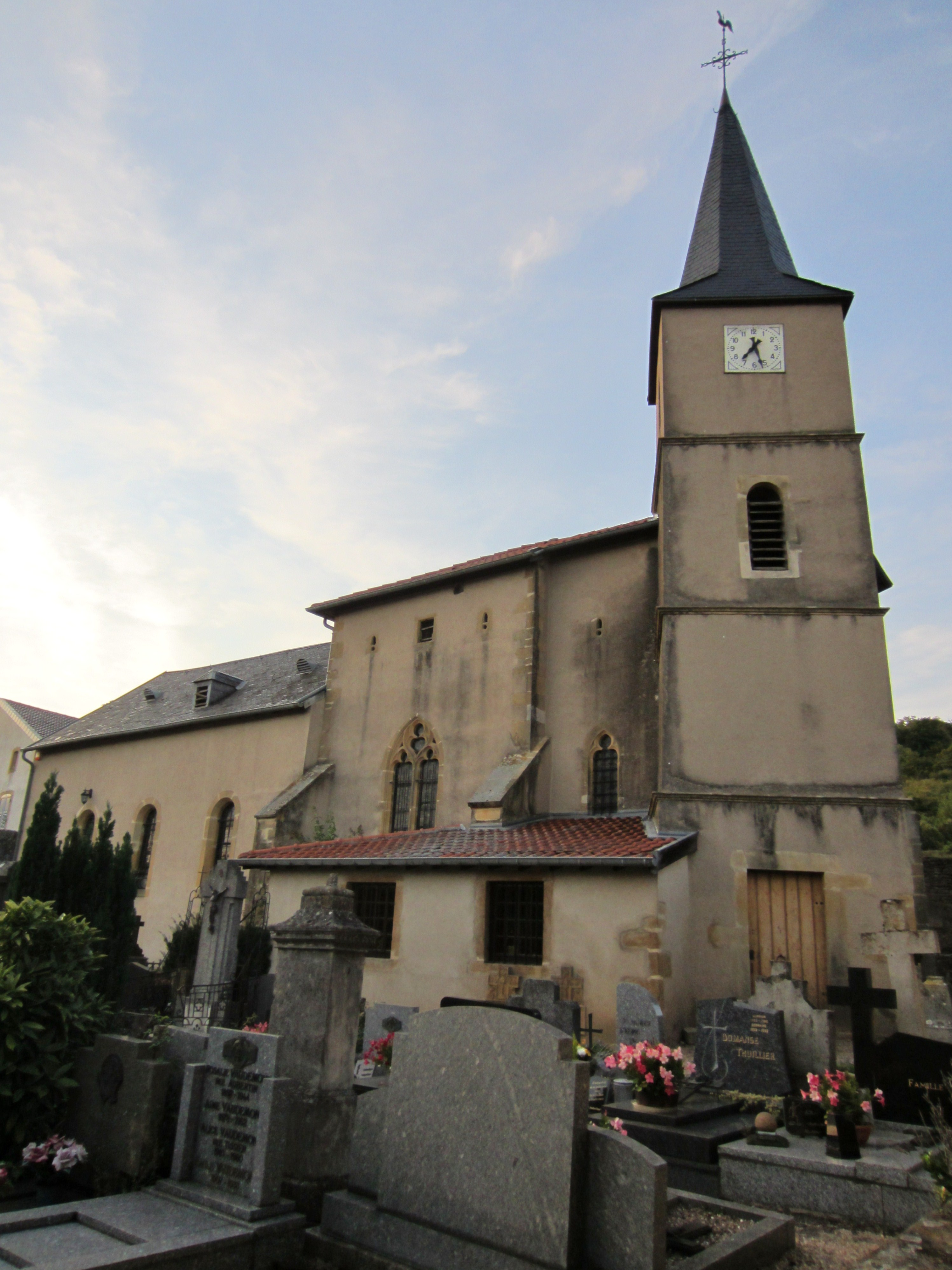 Description eglise saint Brice de Saulny Date12 September 2011Sourcemon appareil photoAuthorAimelaimePermission(Reusing this file) eglise saint Brice de Saulny